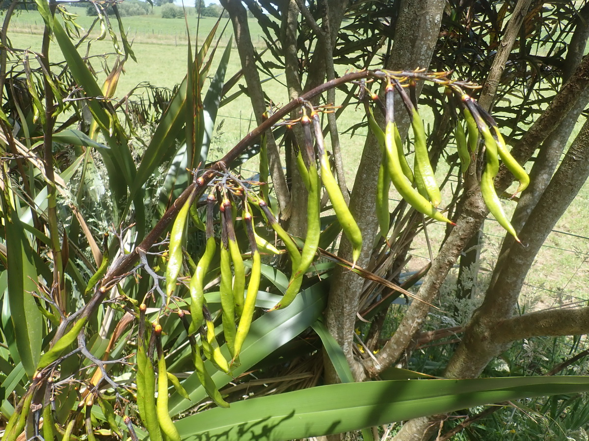 Phormium colensoi - lesser NZ flax - seed pods In Jim Barnett Reserve. Thanks to Plant ID NZ for confirmation.